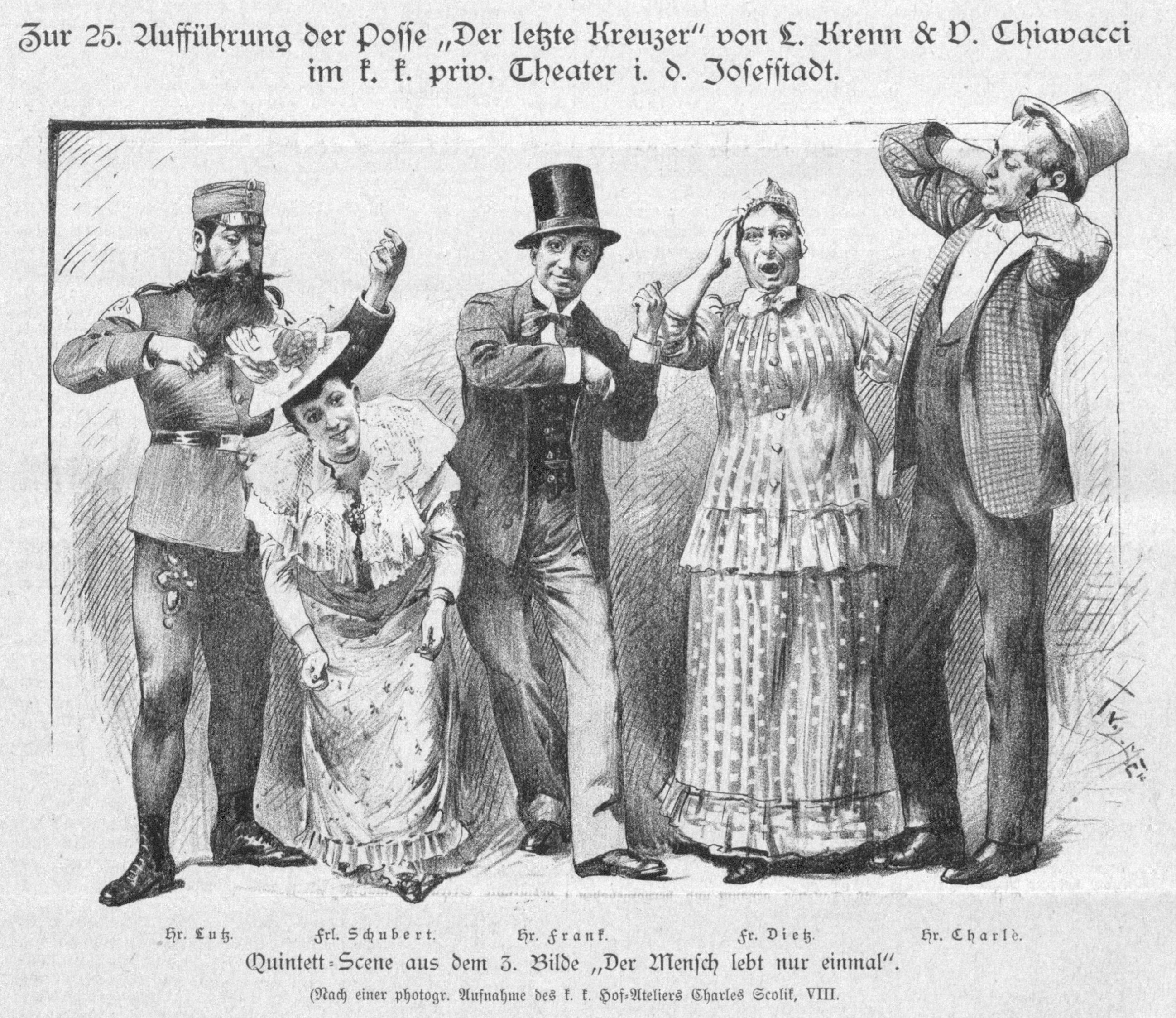 A scene from a play "Der letzte Kreuzer" at Josefstadt Theater in Vienna (Wien), showing Mr. Lutz, Poldi Schubert, Edmund Frank, Mrs. Dietz and Gustav Charlé.